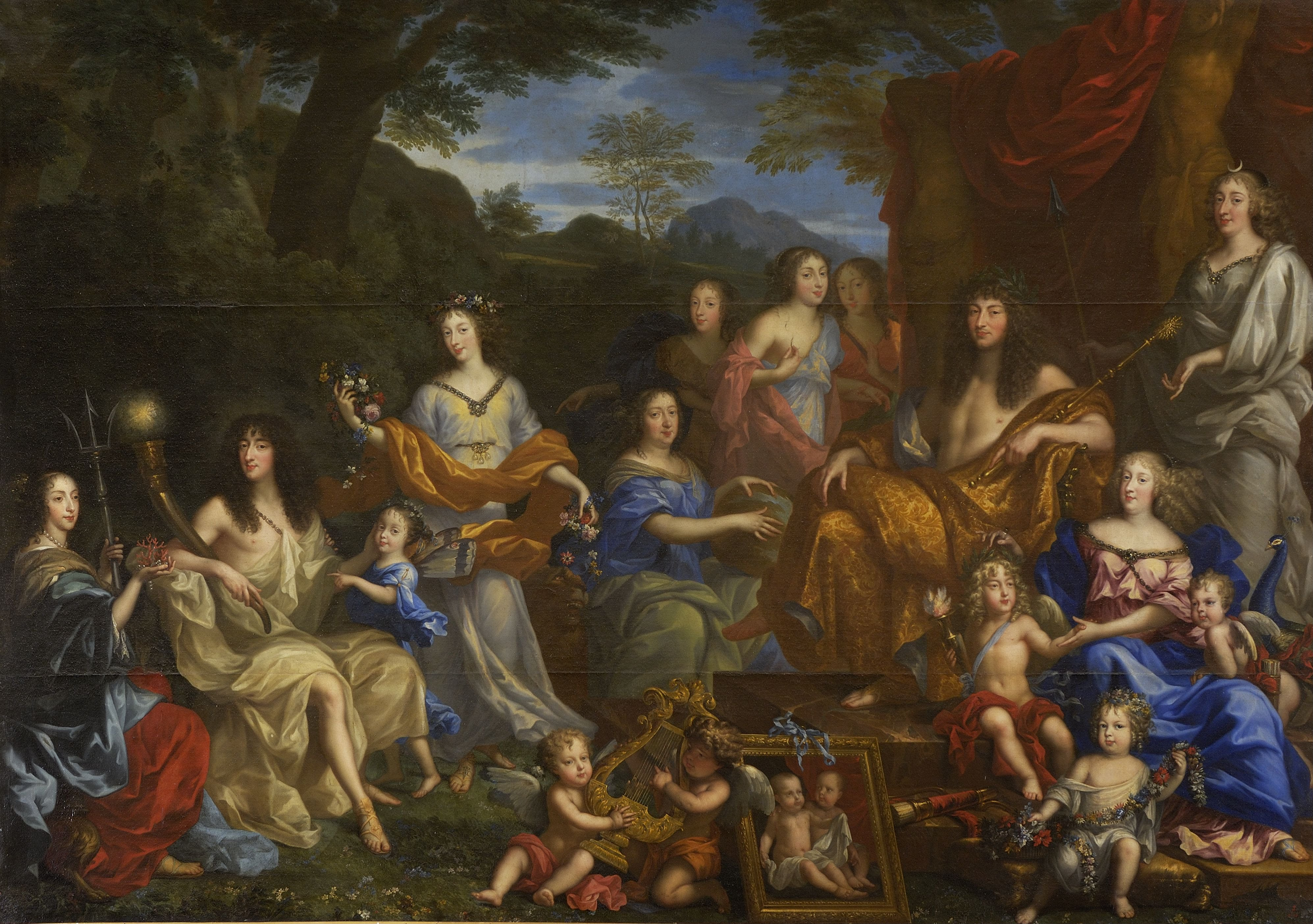 Characters from left to right: The Queen Henrietta Maria of France (1609); Philippe of France, Monsieur (1640); his daughter Marie Louise (1662); his wife Henrietta of England (1644); the queen Mother Anne of Austria; King Louis XIV ; their children, Louis (1661), Marie Thérèse, la Petite Madame (1667) and Philippe (1668); the queen Maria Theresa of Austria (1638) and Anne Marie Louise d'Orleans, la Grande Mademoiselle (1627).